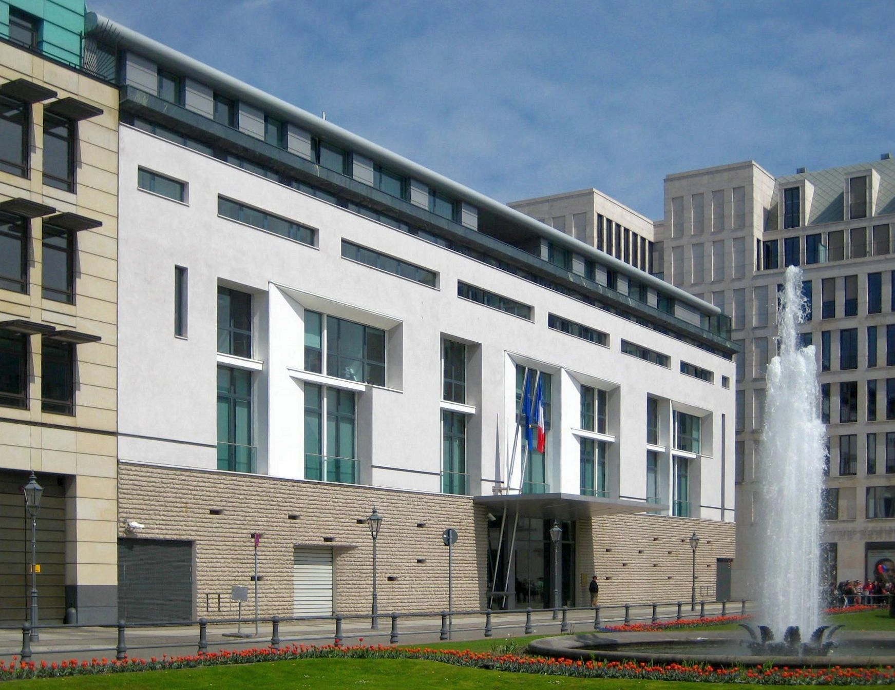 The Embassy of France at Pariser Platz No. 5 in Berlin-Mitte. The building was constructed from 2000 to 2002 to a design by the architect Christian de Portzamparc from Paris.